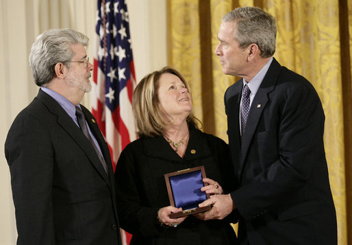 George Lucas receives Medal of Technology from George W. Bush in 2006